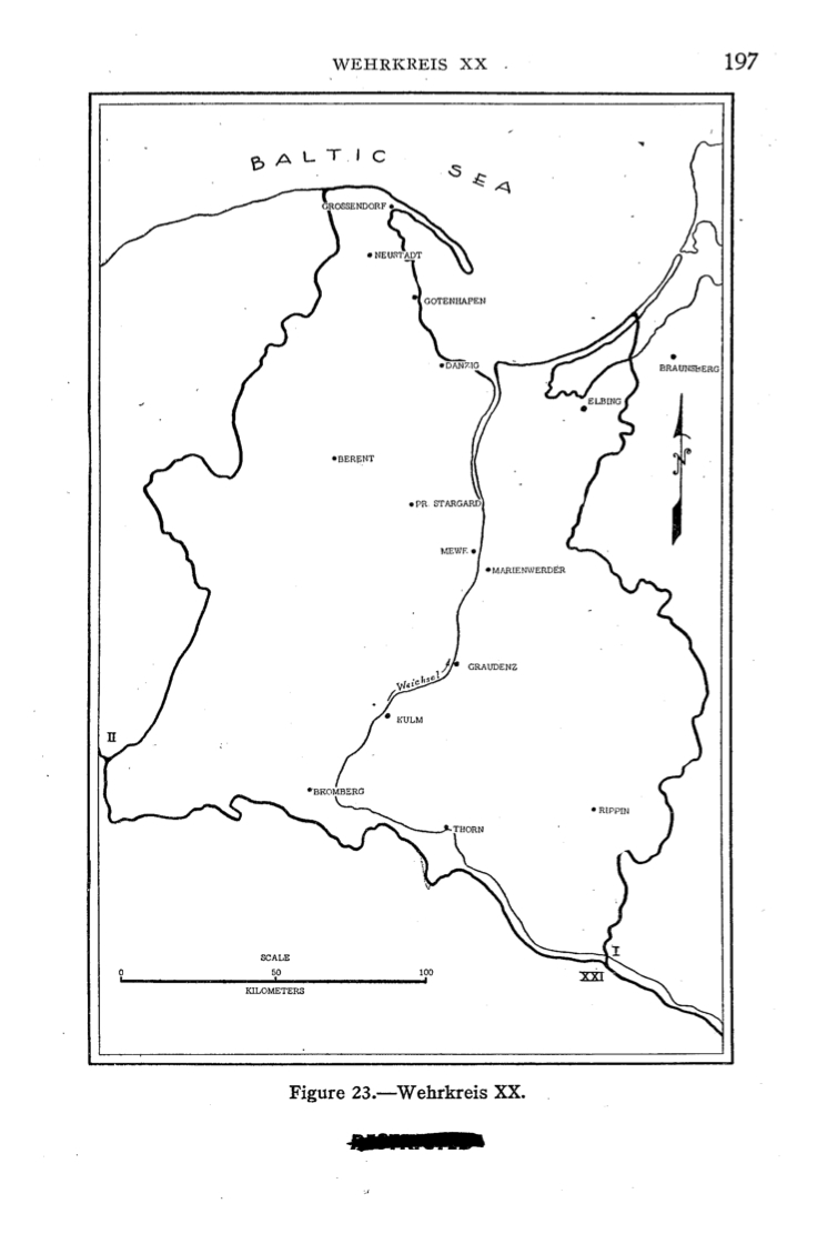 Map of the Wehrkreis, Military District, XX.